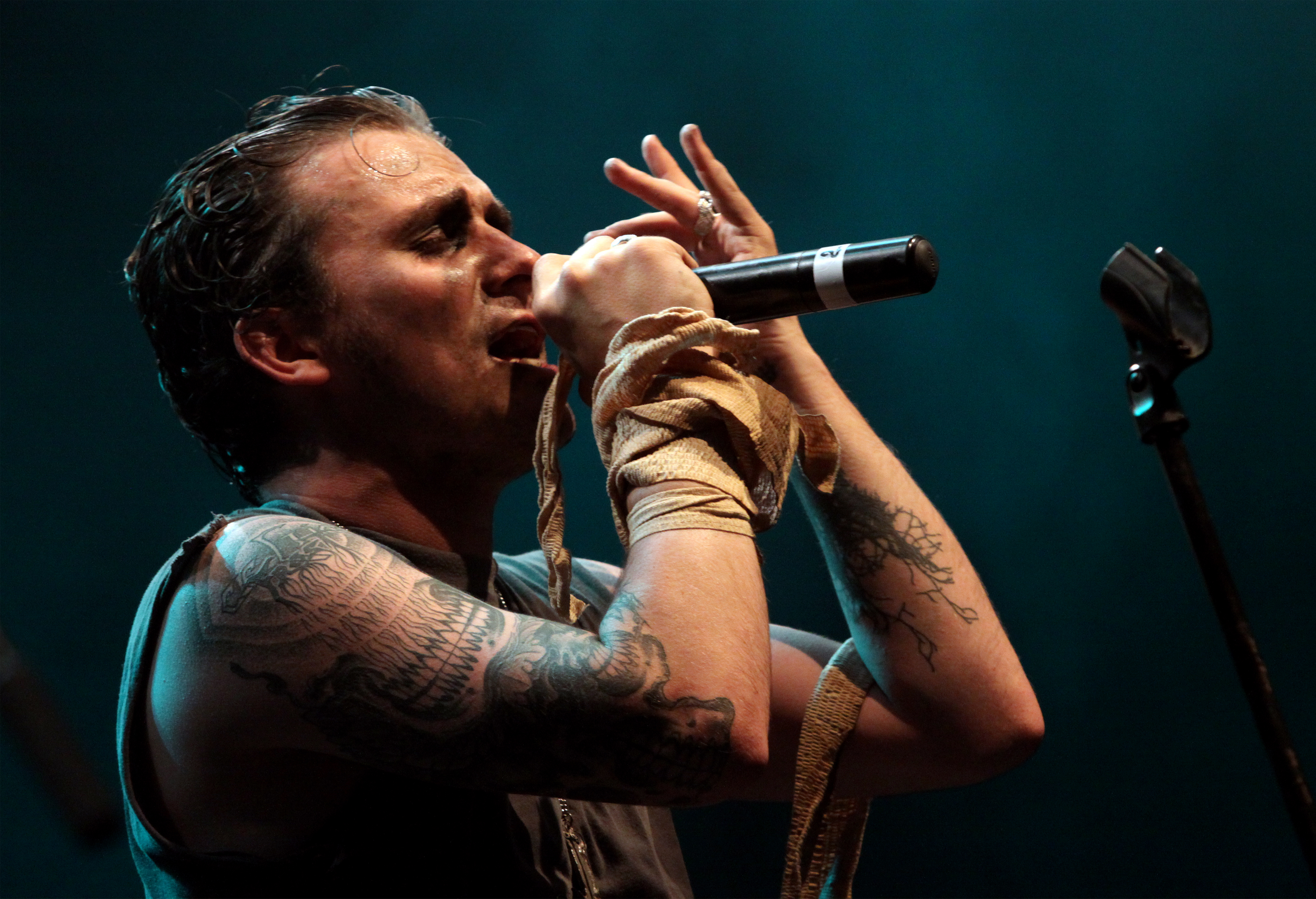 Devilstone Open Air musicians